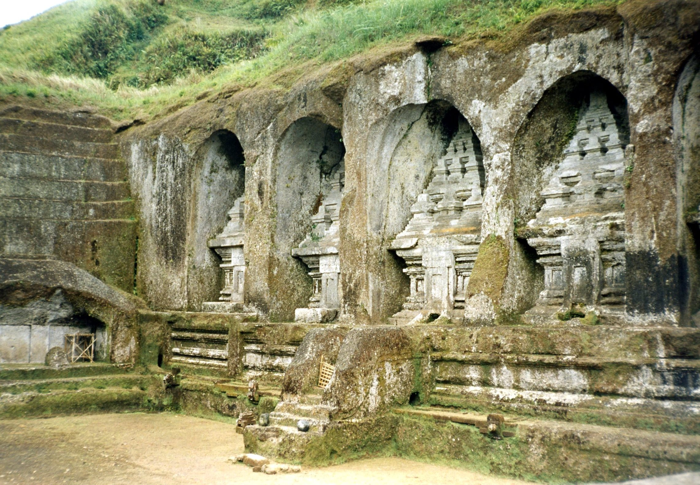 Gunung Kawi temple, Tampaksiring, Bali, Indonesia